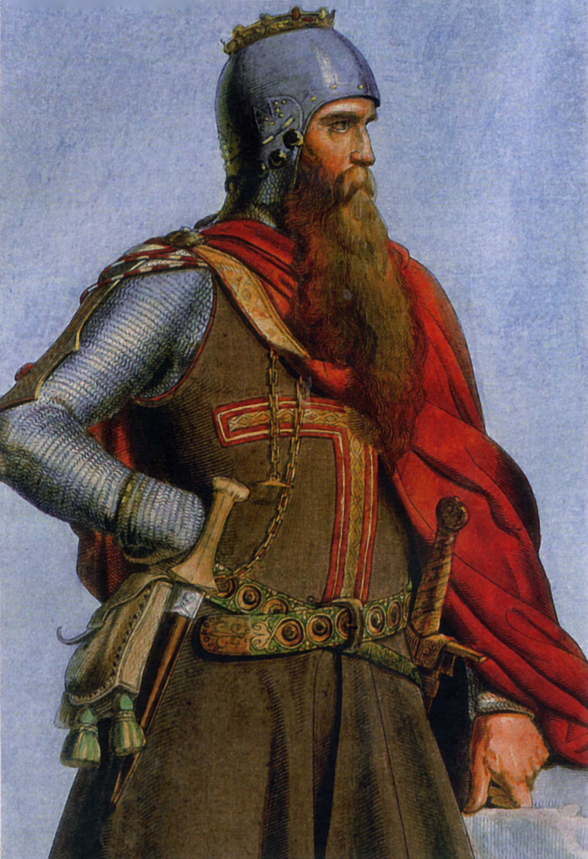 Emperor Frederick I, known as "Barbarossa". Colored copper plate by Christian Siedentopf (1847).